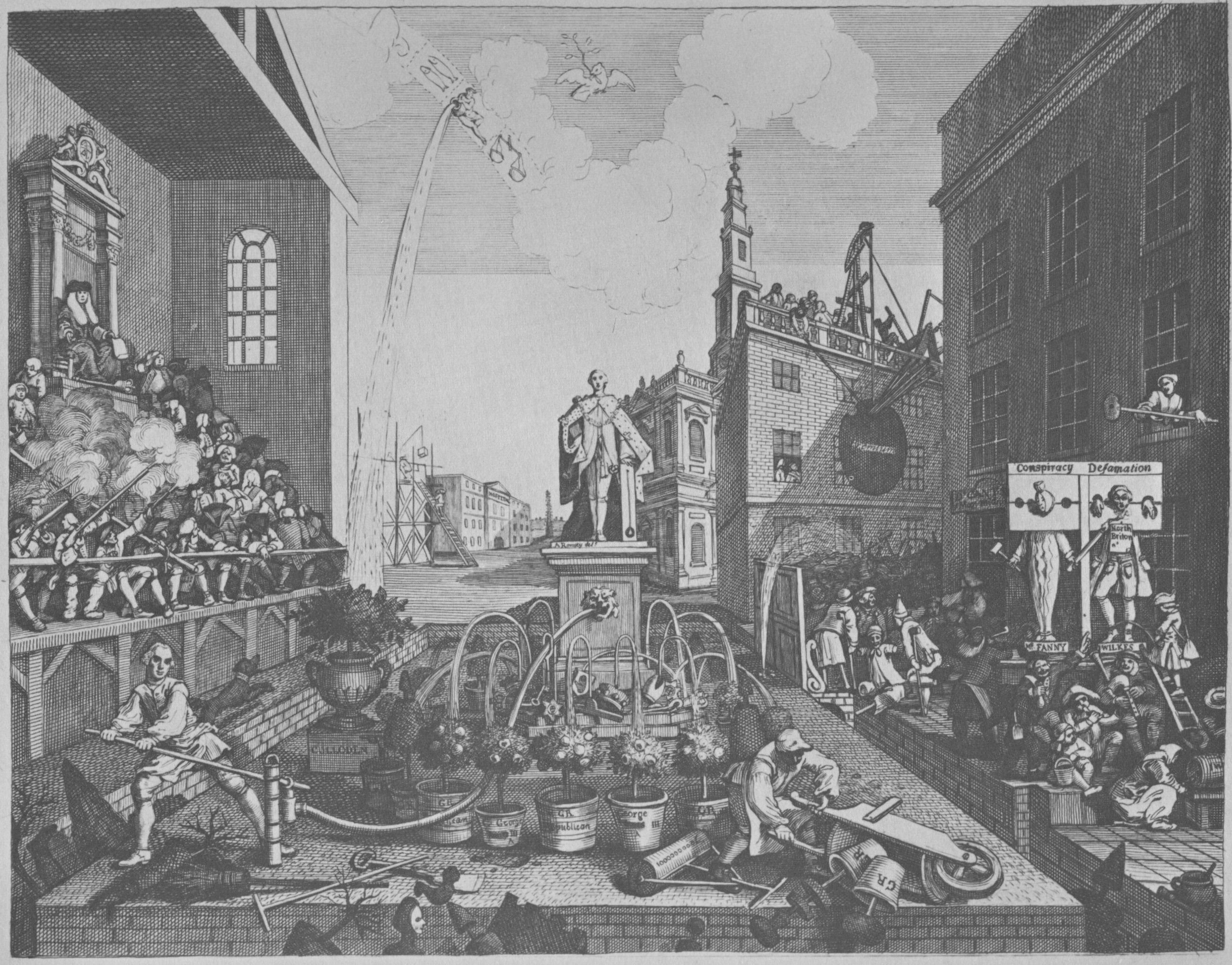 William Hogarth - The Times, plate 2